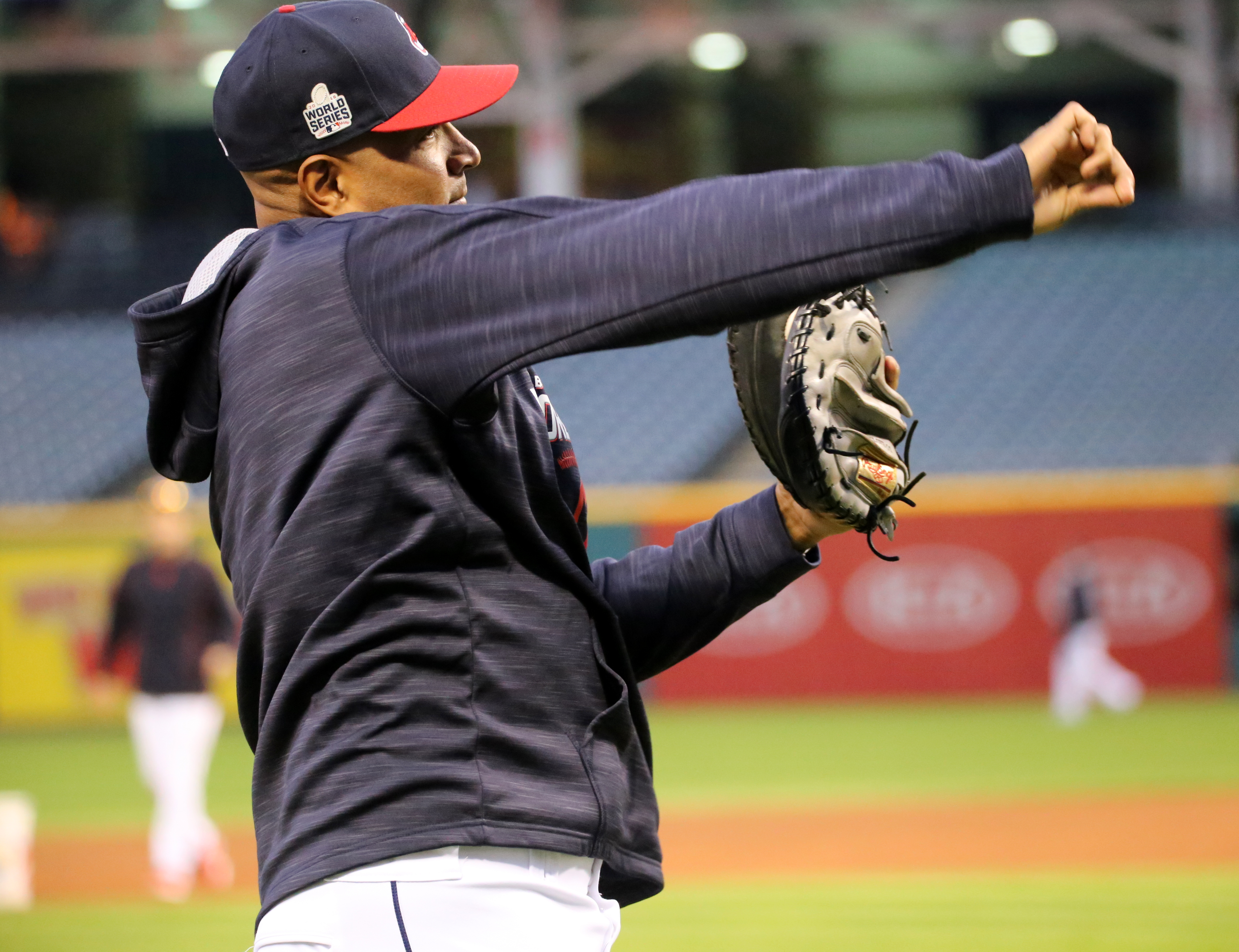 Indians coach Sandy Alomar Jr. plays catch during Sunday's workout at Progressive Field.